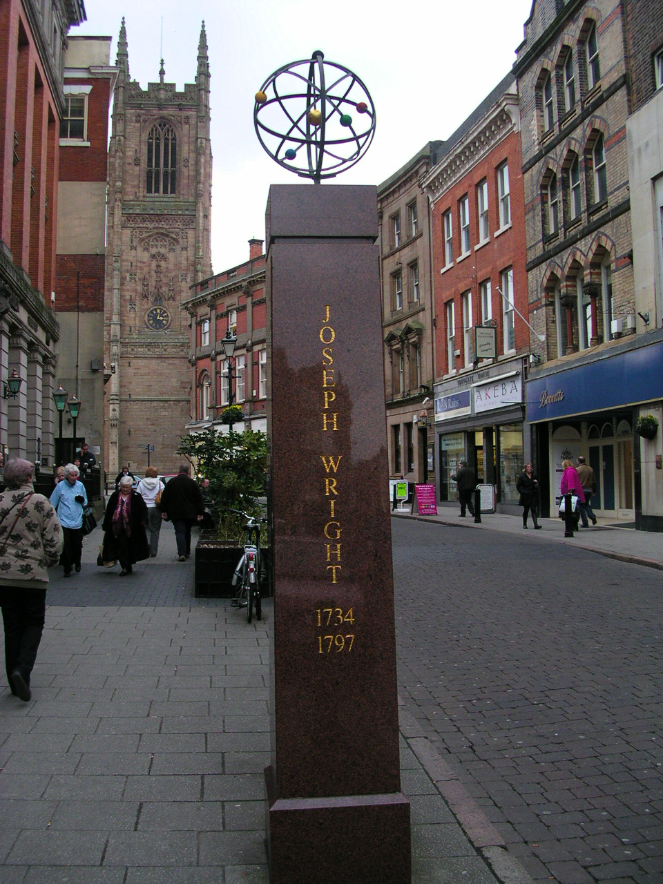 Joseph Wright of Derby memorial Orrery, Derby, England.